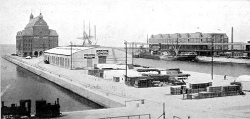 Midtermolen in the Freeport of Copenhagen, Denmark